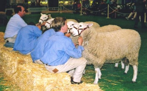 Sydney Royal Easter Show